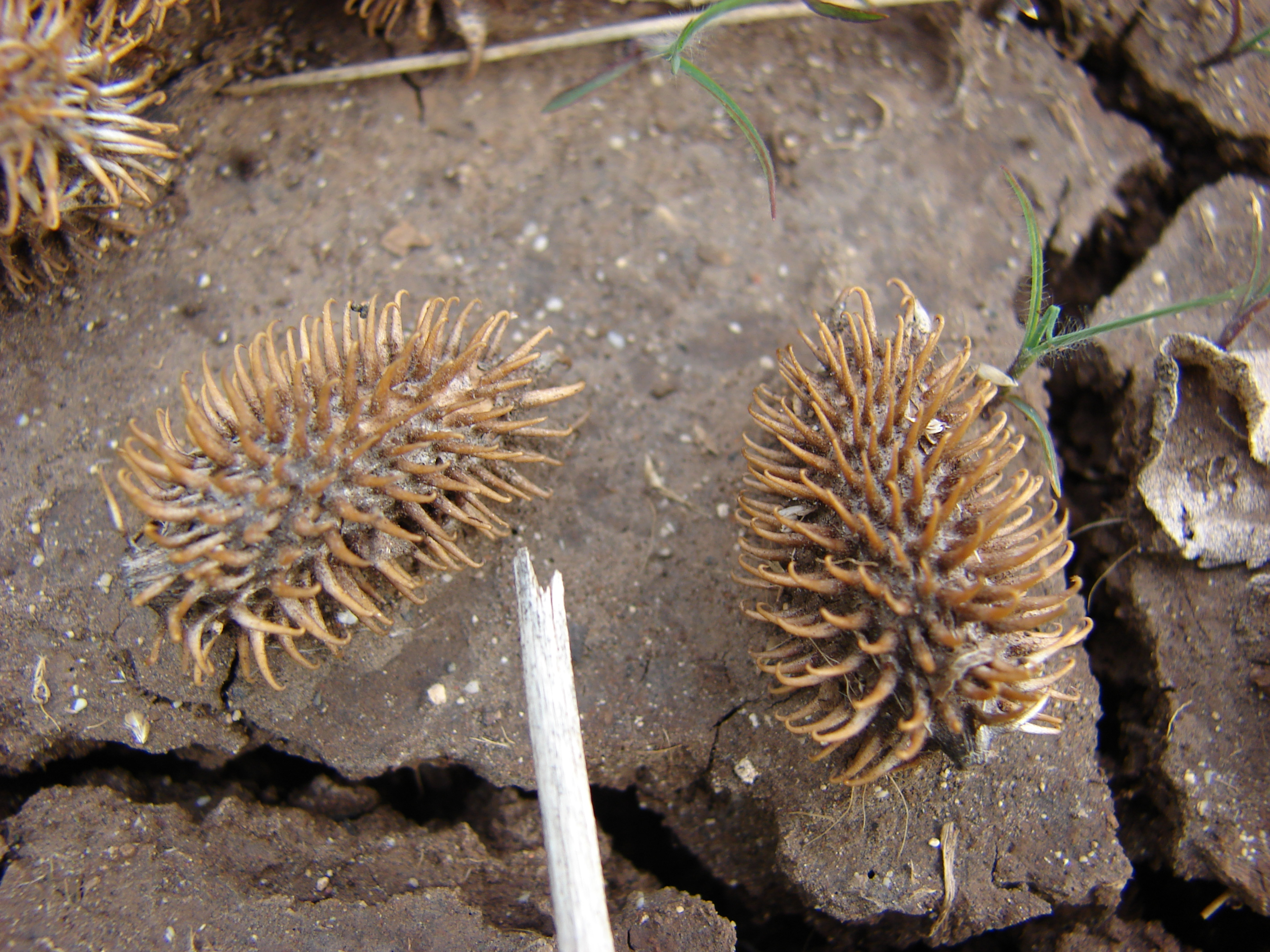 Xanthium strumarium var. canadense (seedpods). Location: Kahoolawe, Honokanaia